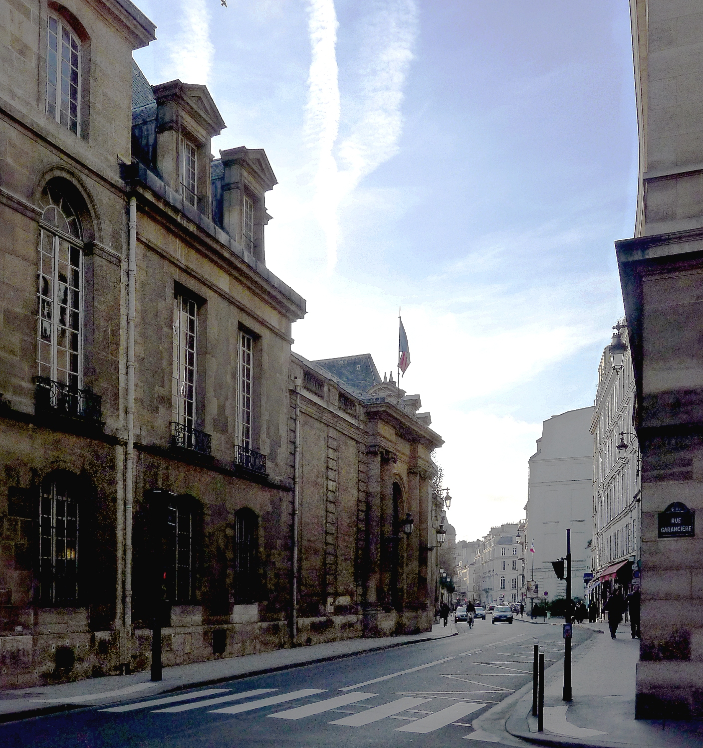 Vaugirard street - Paris